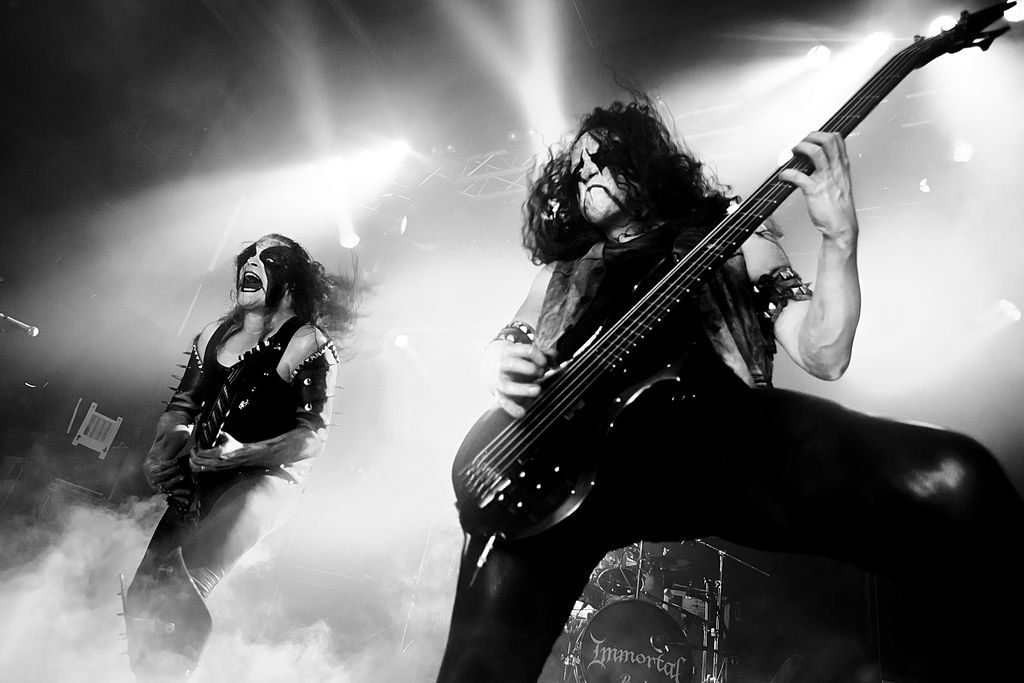 Norwegian black metal band Immortal playing at Hole in the Sky festival in Bergen, Norway (2011).